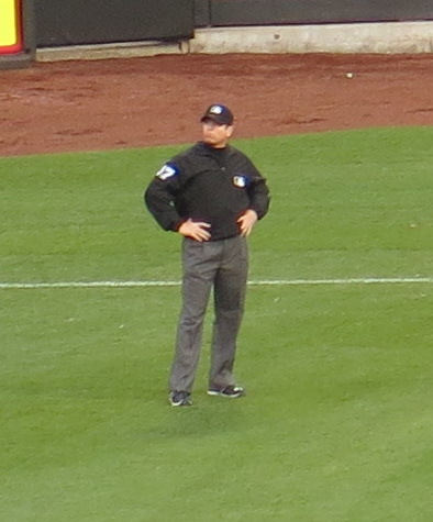 Carlos Torres umpiring at Citi Field, April 25, 2016.